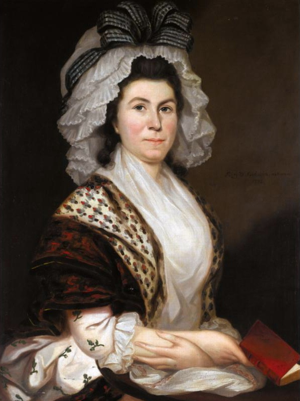 Mrs Godwin, née Wollstonecraft (1759-1797)